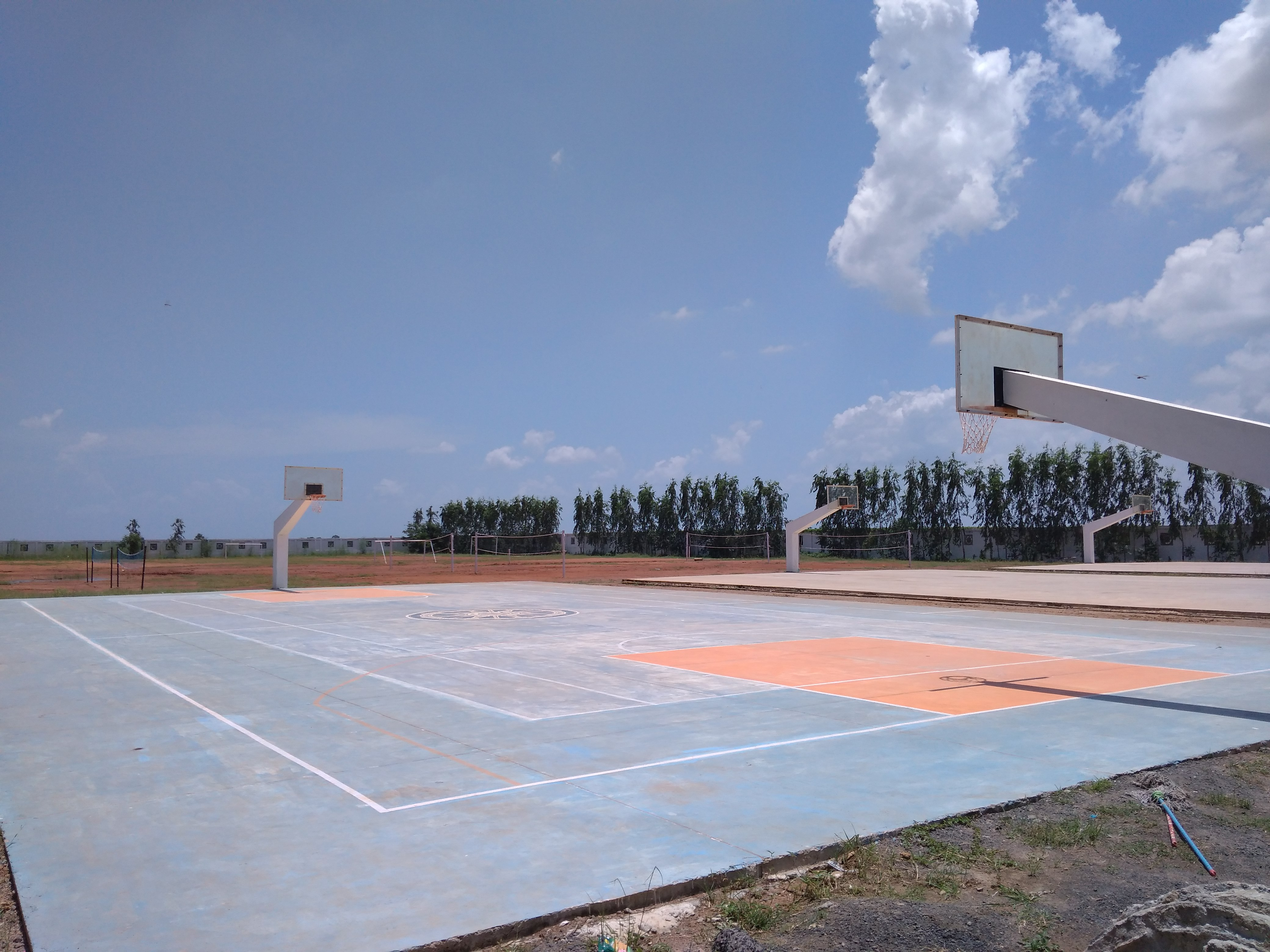 Basket ball court at VVIT